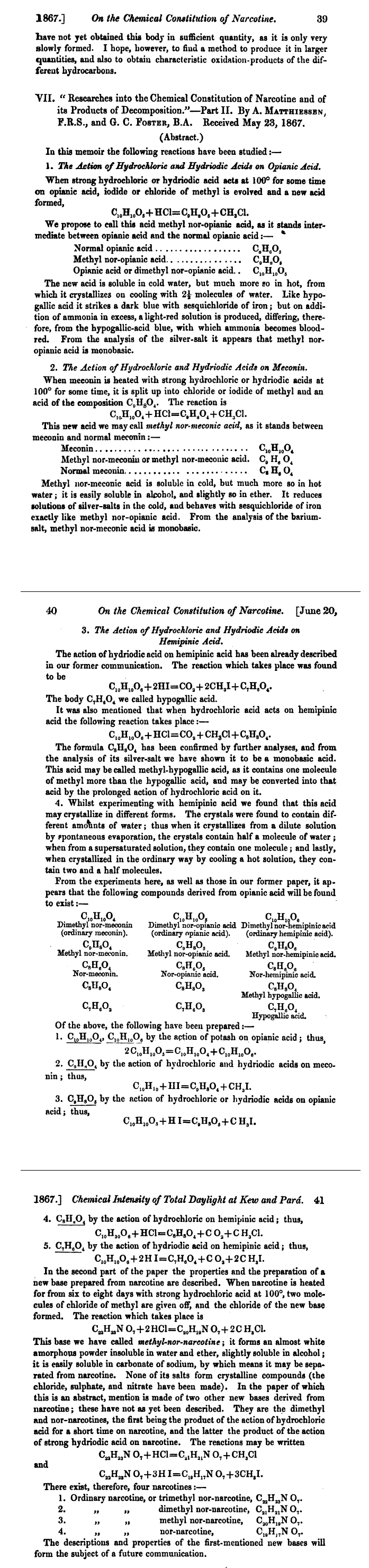 A. Matthiessen and G.C. Foster: "Researches into the chemical constitution of narcotine and of its products of decomposition"; J. Chem. Soc., 358 (1868). Abstract published in: "Proceedings of the Royal Society of London, Volume 16" pp. 39-41.